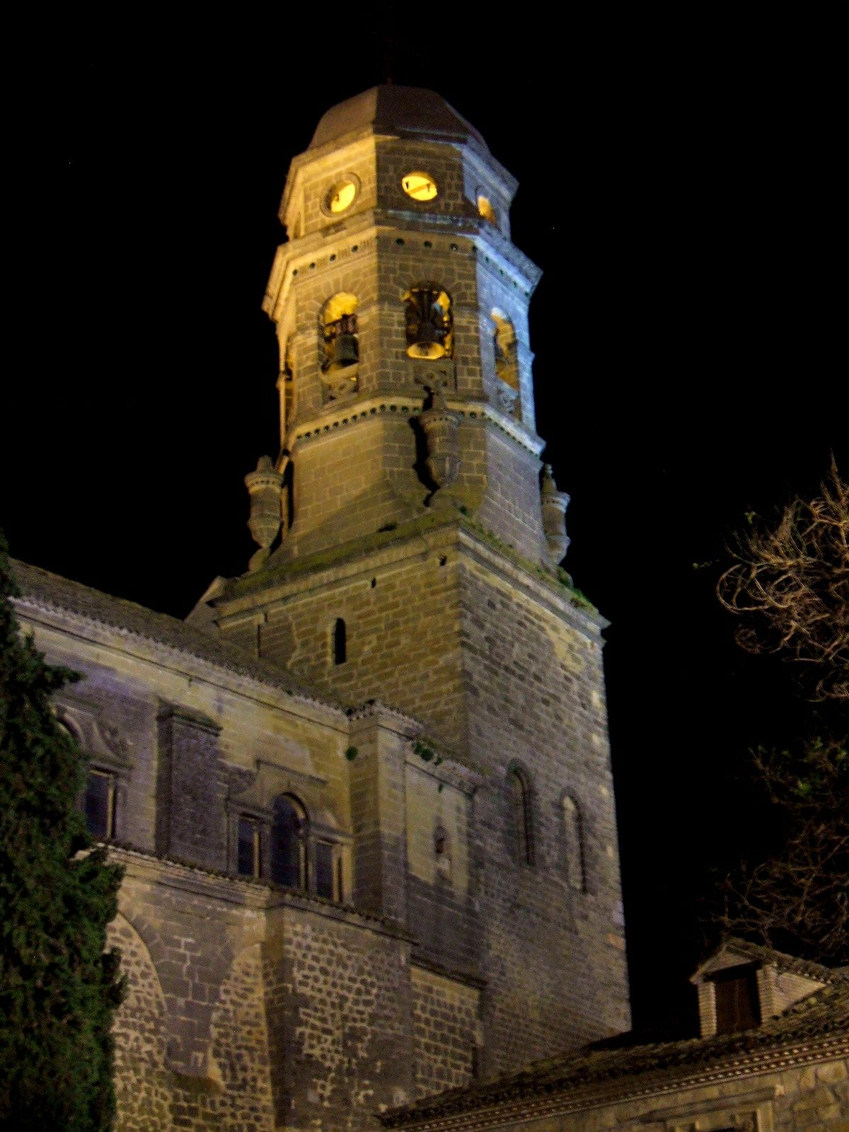 Torre de la Catedral de Baeza (provincia de Jaén, Andalucía, España).